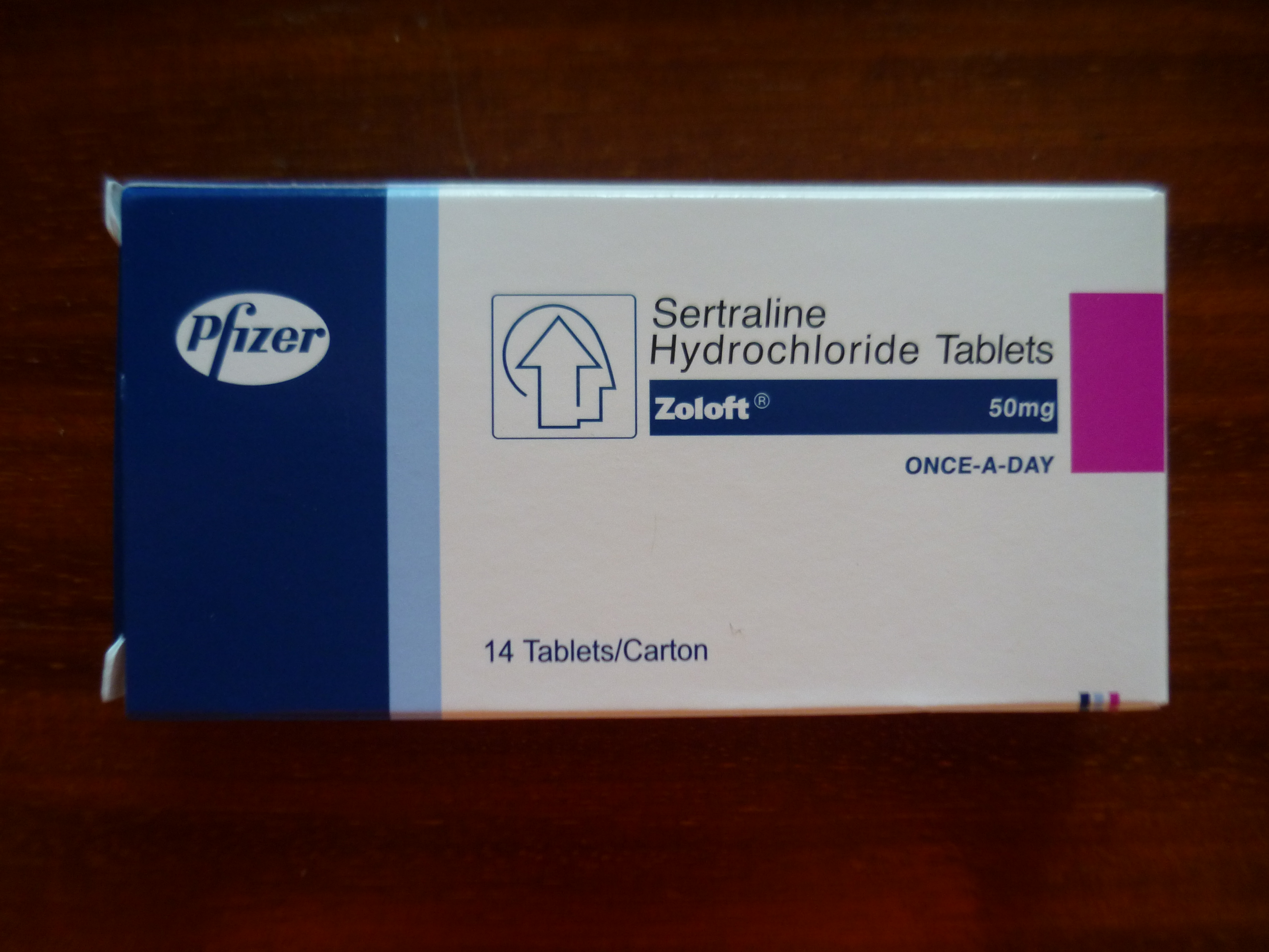 Zoloft 50 mg sold in China.